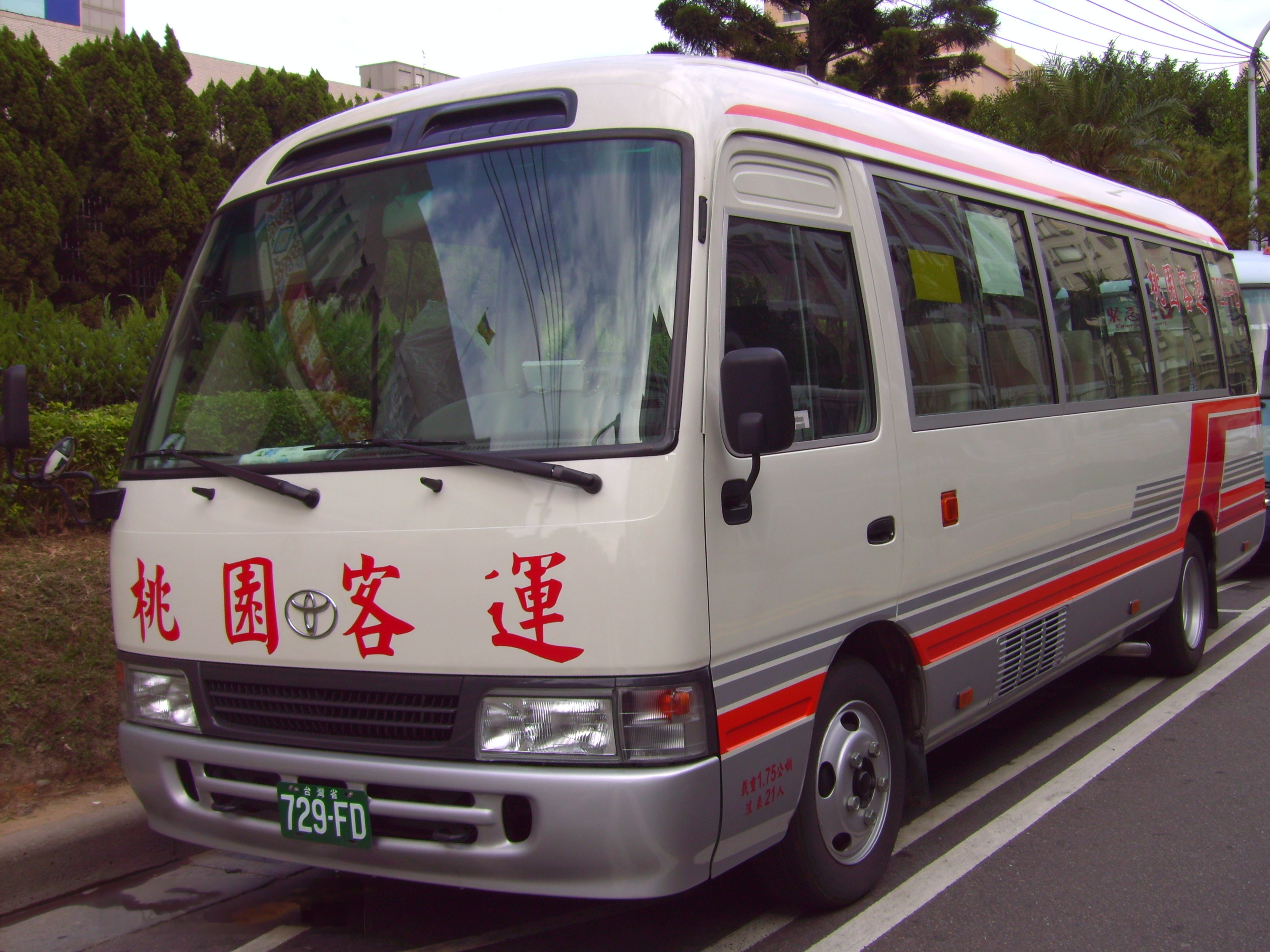 Taoyuan City Free Shuttle Bus 729-FD with Toyota Coaster KC-BB58L.